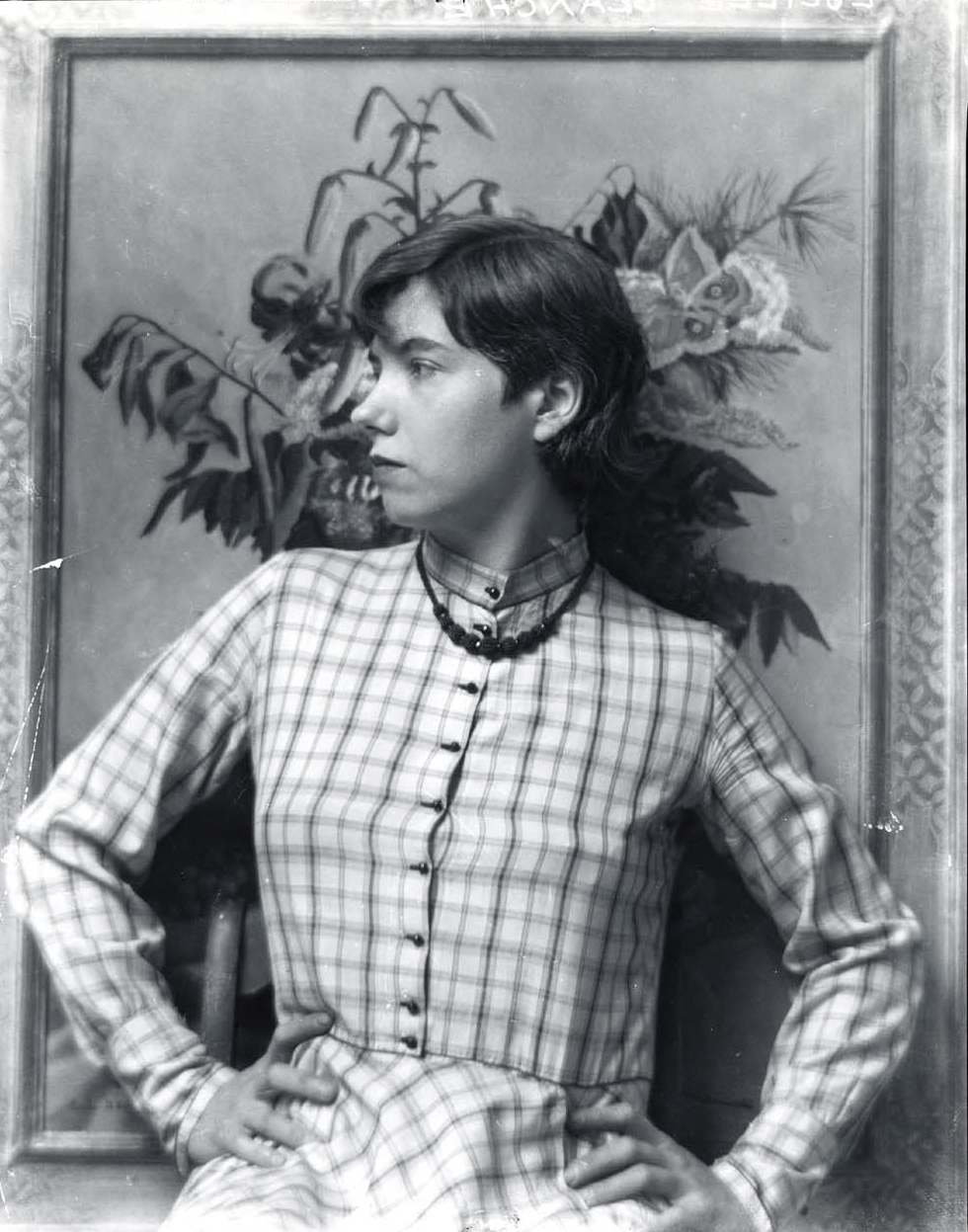 Description: Lucile Blanch was a recipient of a Guggenheim Fellowship as well as a WPA (Public Works of Art Program) artist commission. She was a key part of the revitalization of the Woodstock Art Colony in the 1920s as well. By the mid-1940s her style evolved from realism into abstraction. Creator/Photographer: Peter A. Juley & Son Medium: Black and white photographic print Dimensions: 8 in x 10 in Culture: American Date: 1930 Persistent URL: Repository: Archives of American Art Native nameArchives of American ArtParent institutionSmithsonian InstitutionLocationWashington, D.C.Coordinates38° 53′ 52.44″ N, 77° 01′ 21.72″ W Established1954Web page control : Q2860568 VIAF: 151134814 ISNI: 0000 0001 2185 0758 LCCN: n79065944 NLA: 35007823 GND: 1085306631 WorldCat institution QS:P195,Q2860568 Collection: Peter A. Juley & Son Collection - The Peter A. Juley & Son Collection is comprised of 127,000 black-and-white photographic negatives documenting the works of more than 11,000 American artists. Throughout its long history, from 1896 to 1975, the Juley firm served as the largest and most respected fine arts photography firm in New York. The Juley Collection, acquired by the Smithsonian American Art Museum in 1975, constitutes a unique visual record of American art sometimes providing the only photographic documentation of altered, damaged, or lost works. Included in the collection are over 4,700 photographic portraits of artists. Accession number: J0001215